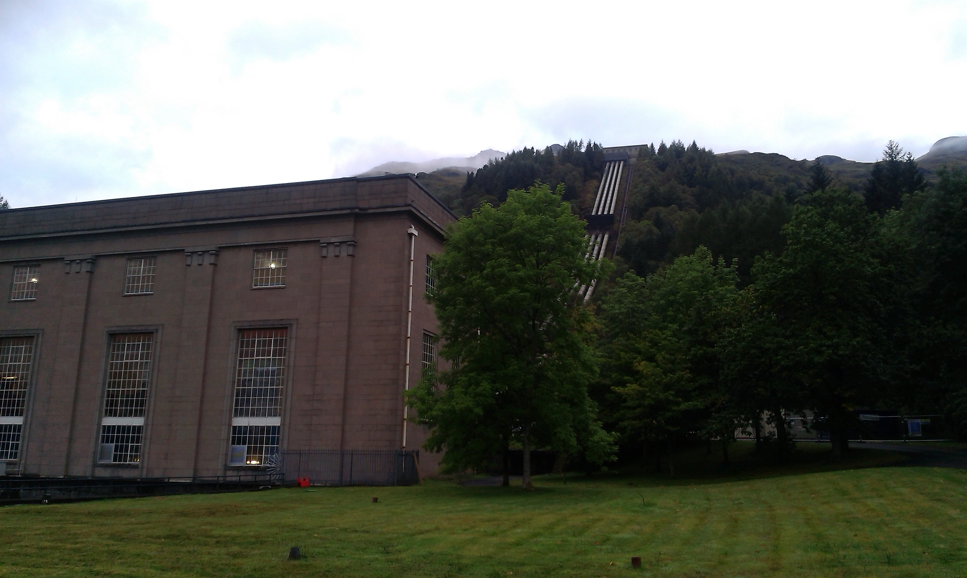 One side of the Sloy Power Station with four pipes coming down to the turbines.